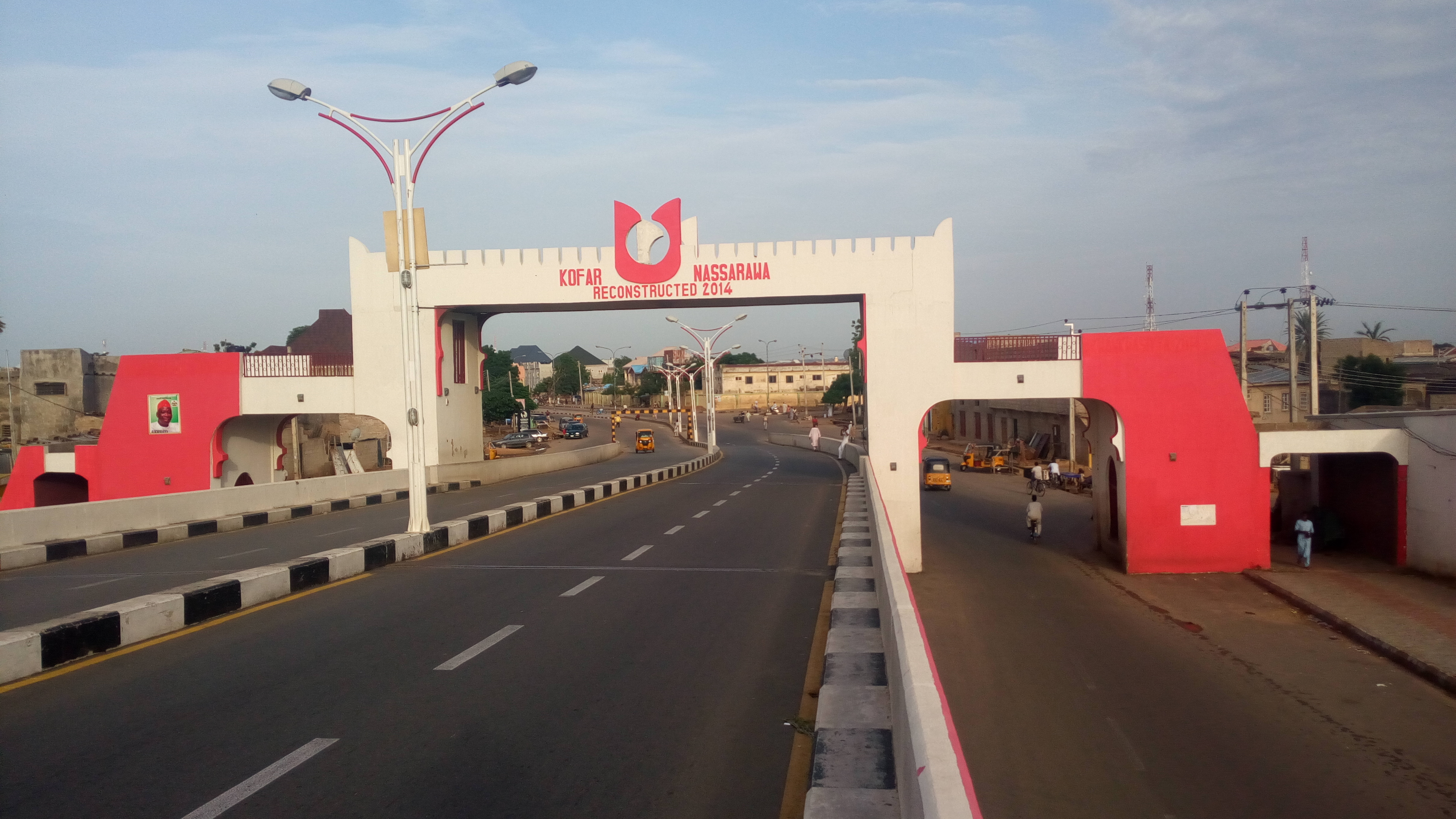 Ancient City Gate of Kano City which was rebuilt in 2014 after construction of Rabiu Musa Kwankwaso Bridge